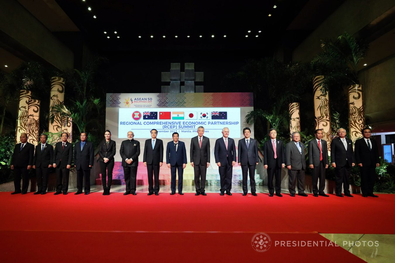 2017 RCEP Leaders’ Meeting